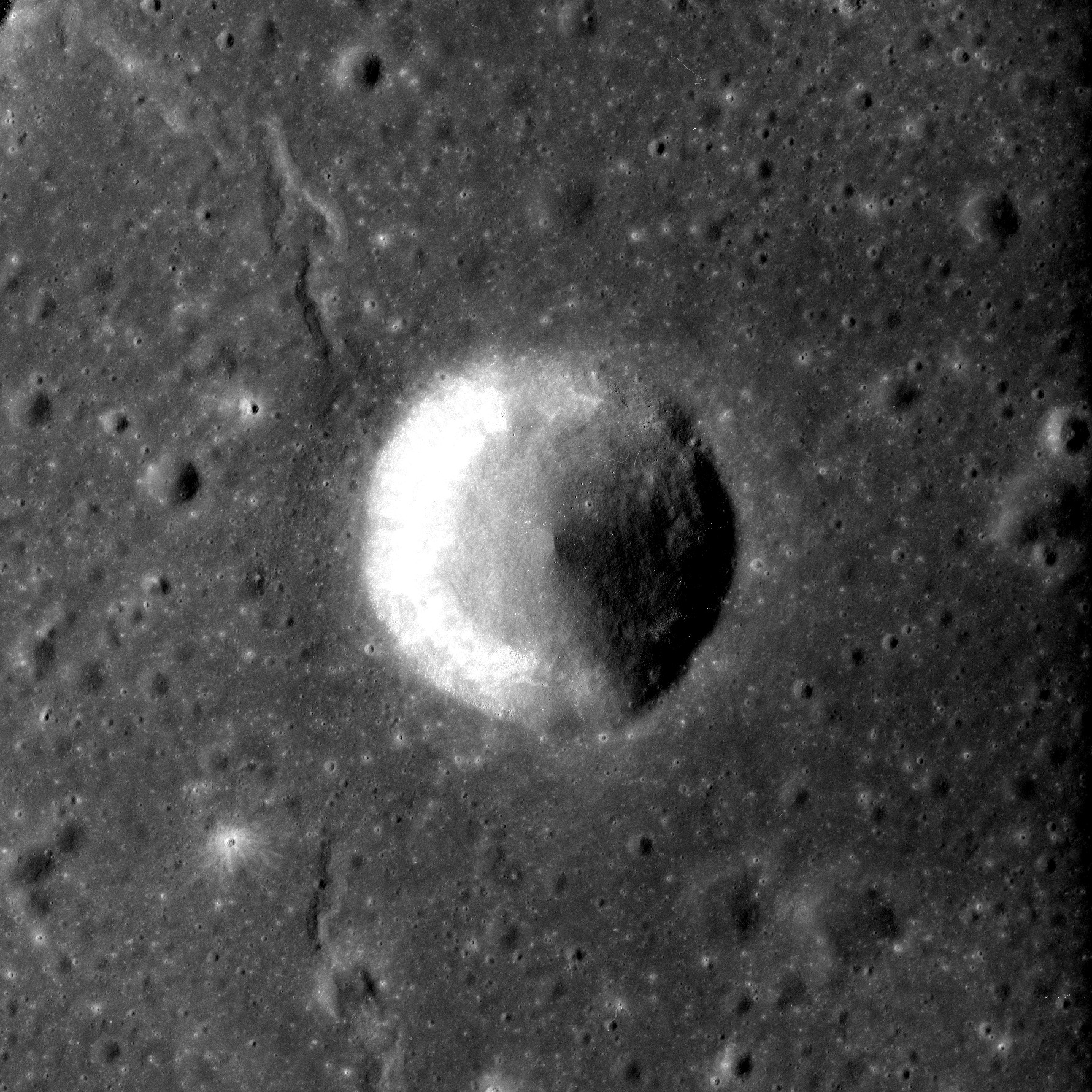 Eckert crater, Mare Crisium, on the moon. Apollo 17 panoramic camera.